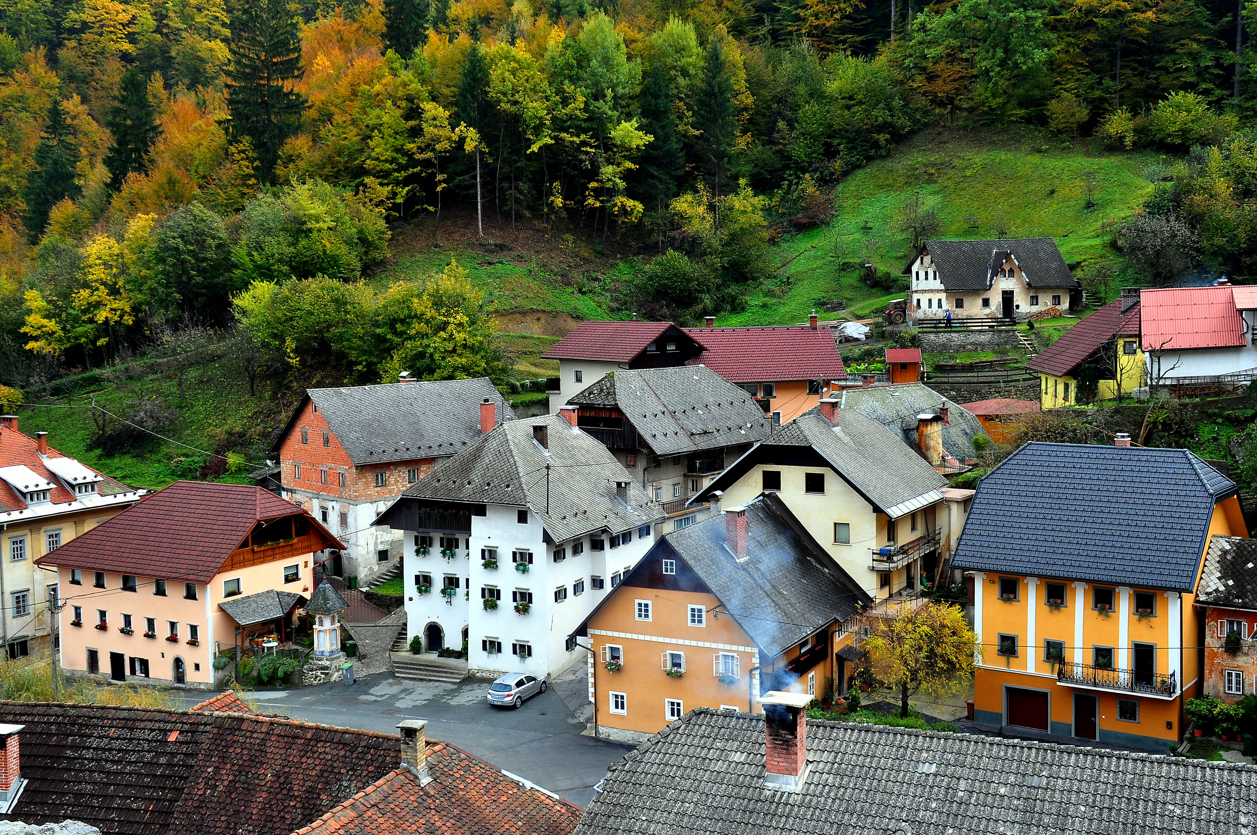 View at the Plac and the center of Kropa, community of Radovljica, Gorenjska, Slovenia